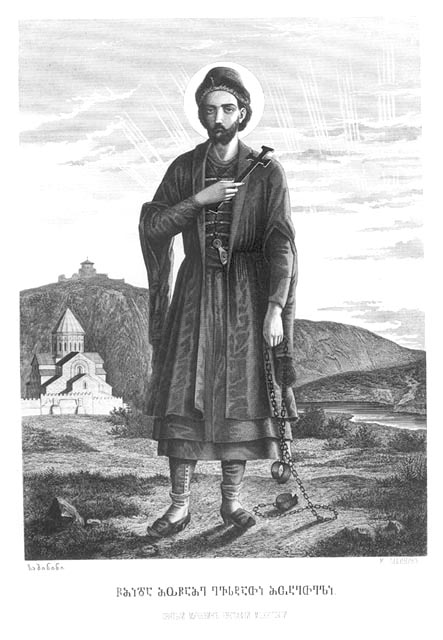 The depiction of St. Evstati of Mcxeta. Published in St. Petersburg in 1882, this beautifully lithographed Sakartvelos Samotxe (The garden/paradise of Georgia) provides biographies of important Georgian Orthodox Christian saints. .